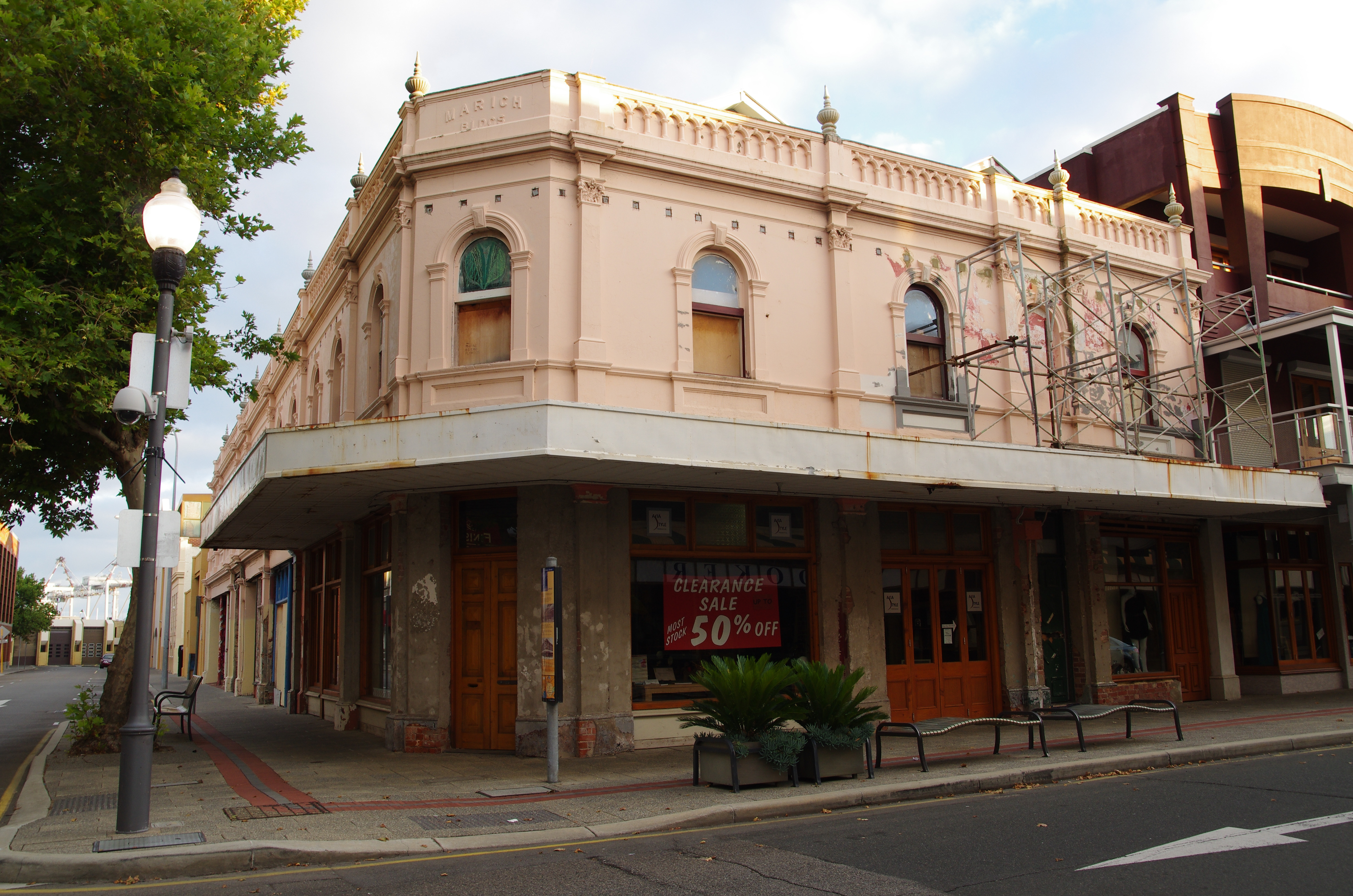 Object location32° 03′ 18.41″ S, 115° 44′ 39.05″ E Marich Buildings